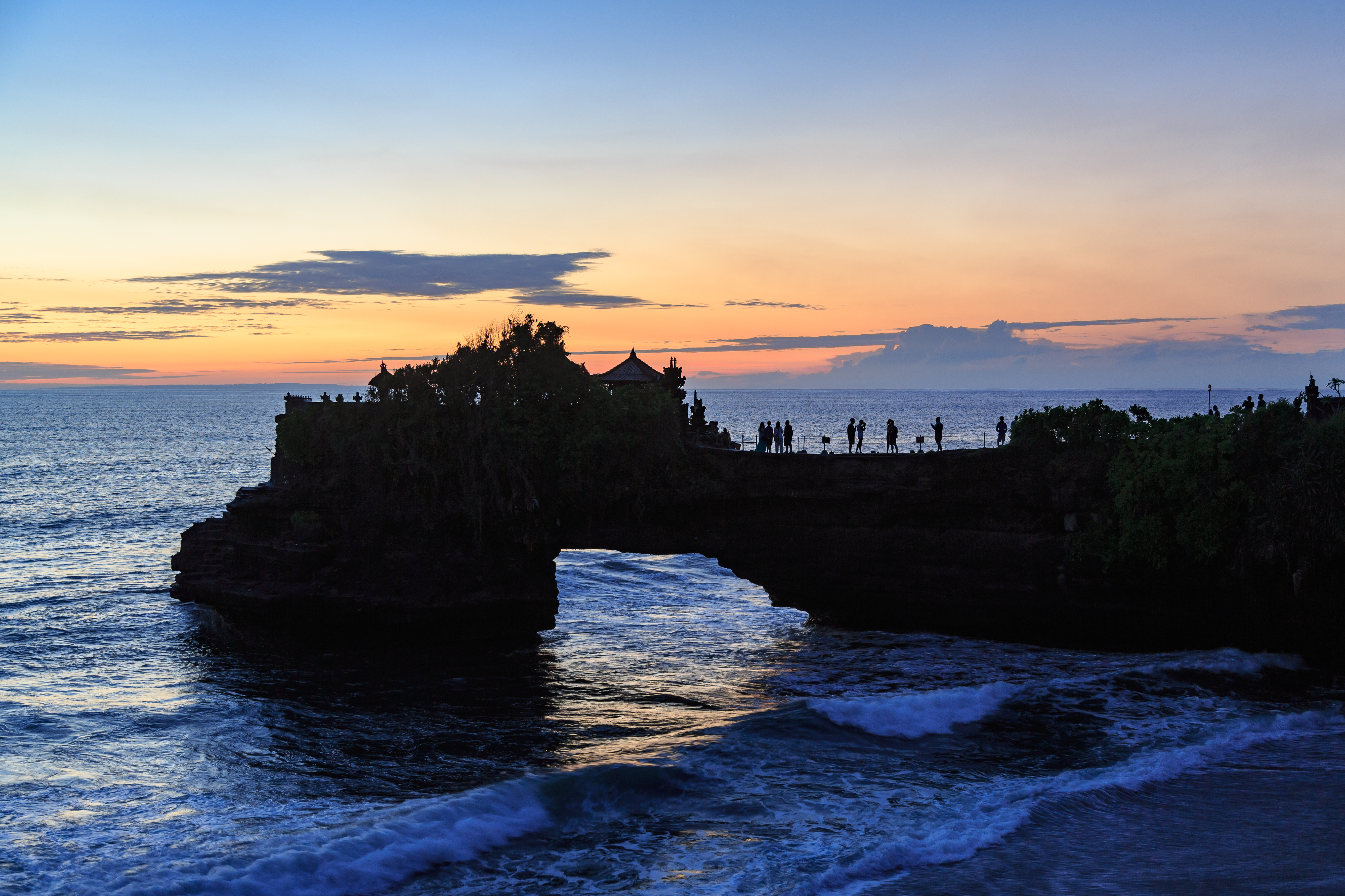 Tanah Lot, Bali, Indonesia:Pura Batu Bolong at sunset